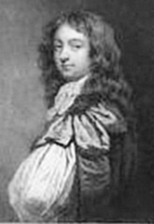 Lord Ford Grey, involved in the Rye House Plot, died 1701, Whig politician